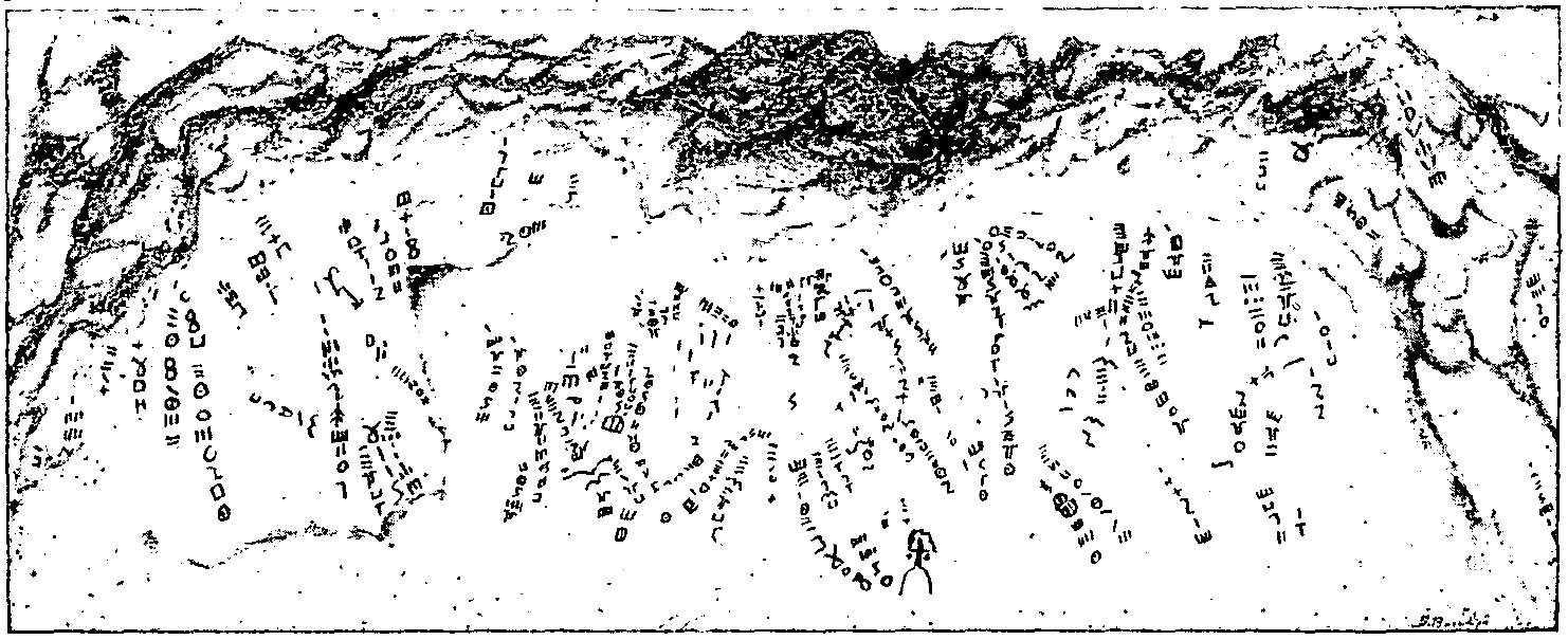 An overview of the ancient Libyan inscriptions in the Tafira cave